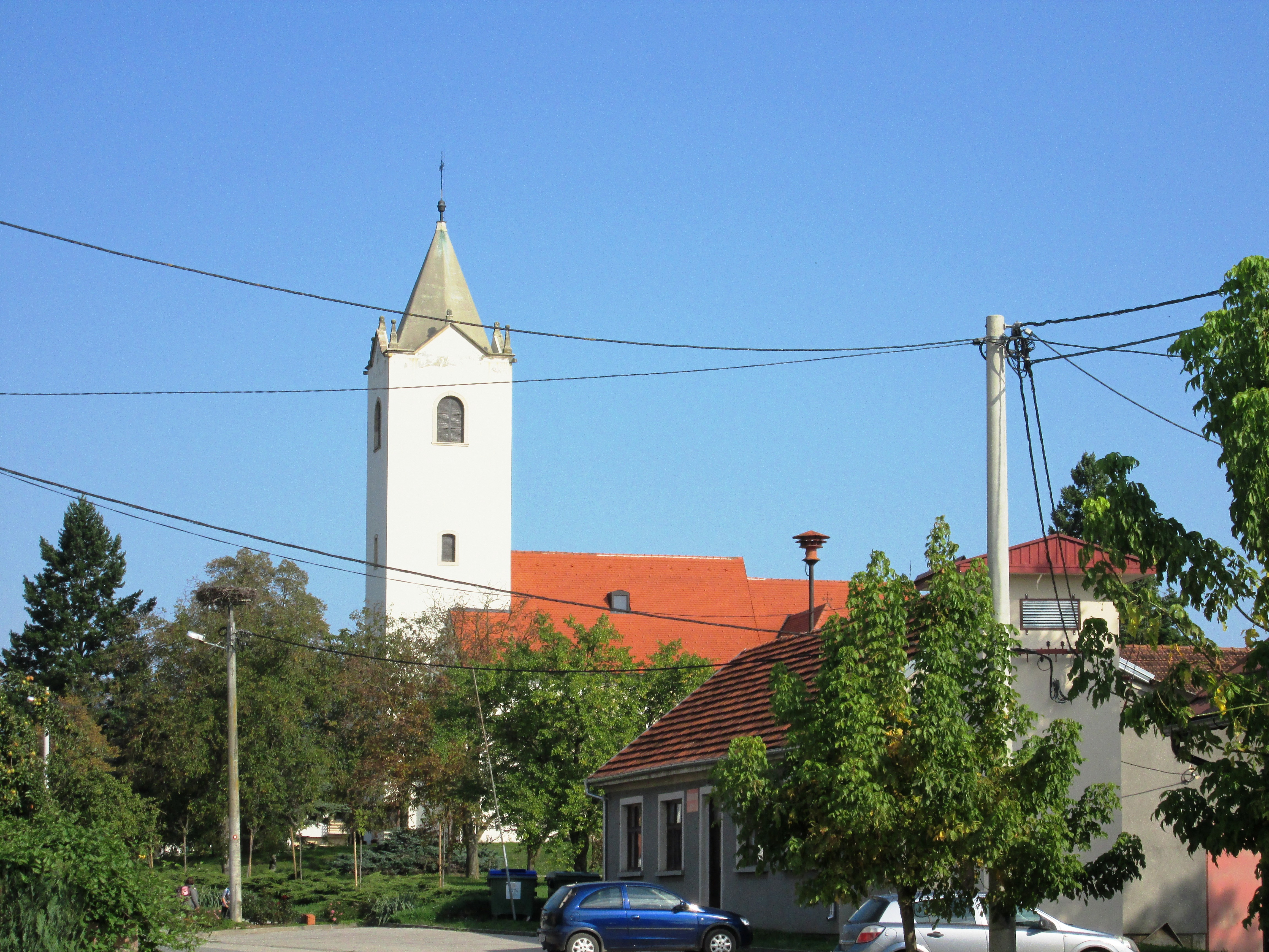 St. Peter Church in village Sveti Petar Orehovec in Croatia.